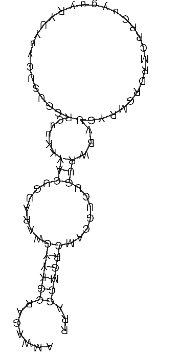 RNA secondary structure of TB6Cs1H1 generated by the WAR server( It is the consensus structure from 7 Trypansomatid species -Leishmania major, Leishmania infantum, Trypanosoma brucei, Trypanosoma brucei gambiense, Trypanosoma cruzi, Trypanosoma congolense, Trypansoma vivax